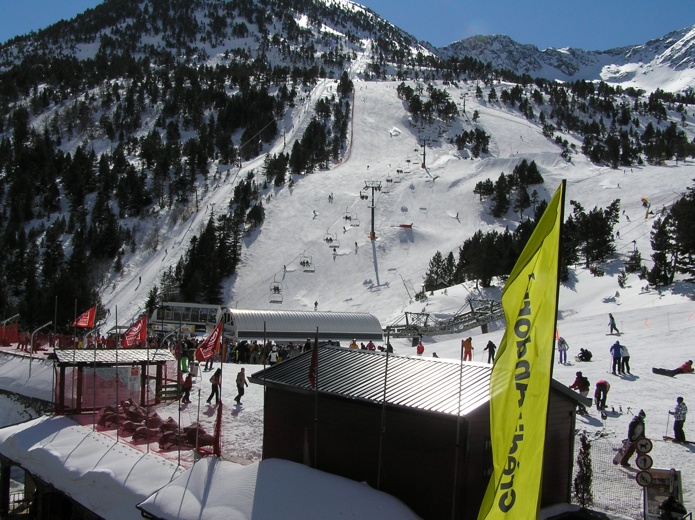 View of red slopes from the main ski center in the Arcalís ski resort in Andorra and which forms part of the Vallnord ski area.